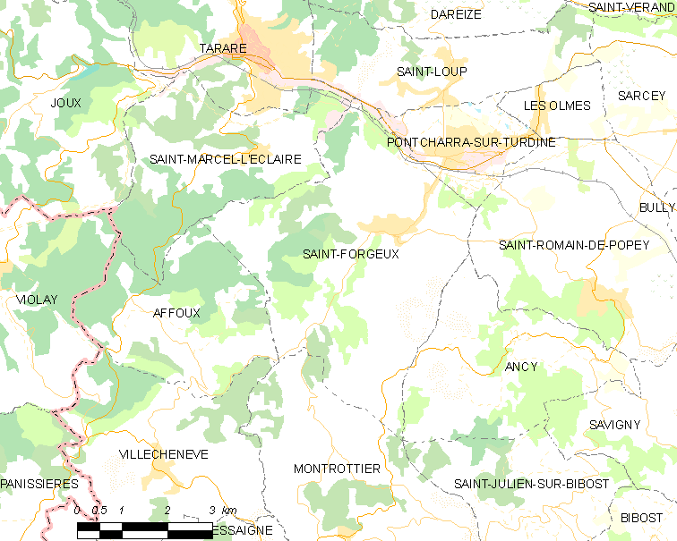 Map of French municipality